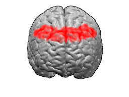 Brodmann area 8 BA8 is in the posterior part of the frontal lobe. This is a front view, looking down on front of the brain The brain's surface is extracted from structural MRI data (Wellcome Dept. Imaging Neuroscience, UCL, UK). The Brodmann Area data is based on information from the online Talairach demon (an electronic version of Talairach and Tournoux, 1988). These images were created using Blender and Matlab. reference:Talairach, J., and Tournoux, P. Co-Planar Stereotactic Atlas of the Human Brain., New York: Thieme, 1988.